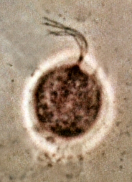 Trichomonas vaginalis photographed by phase contrast microscopy